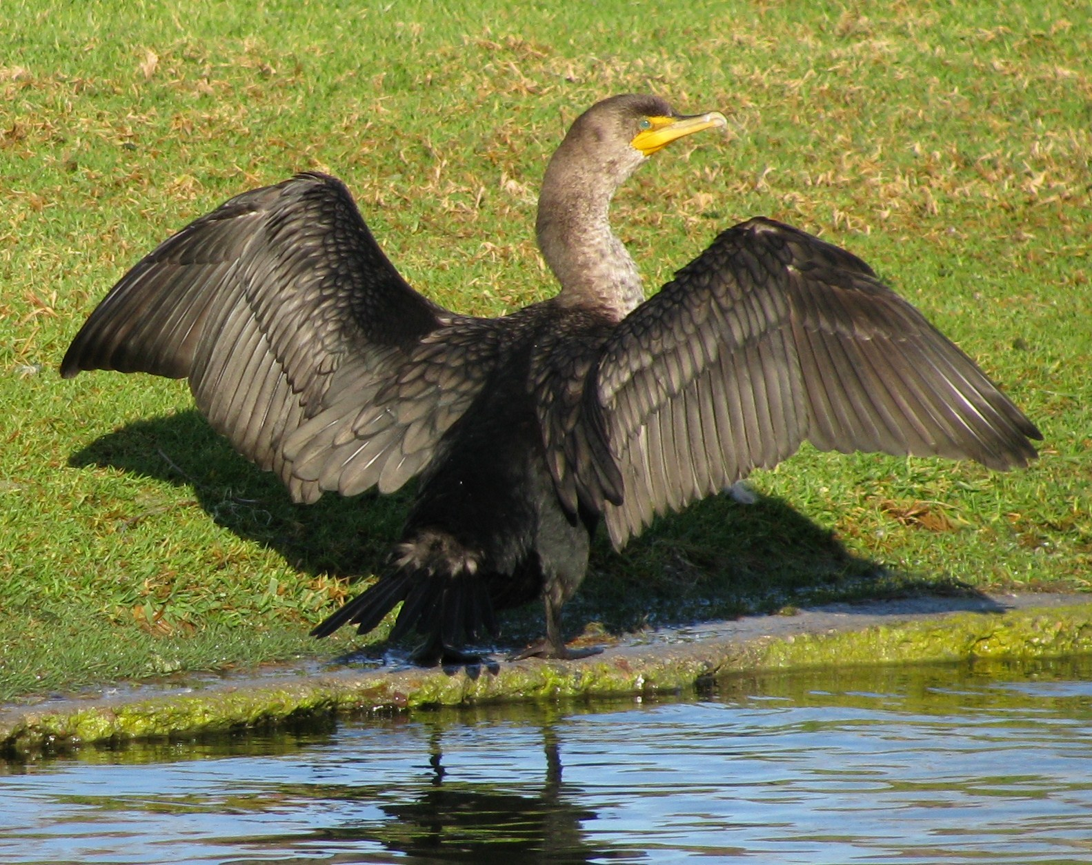 Phalacrocorax auritus double-crested cormorant Location: Ralph B. Clark Regional Park, Buena Park, CA, USA